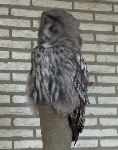 Species Strix nebulosa lapponica Family Strigidae